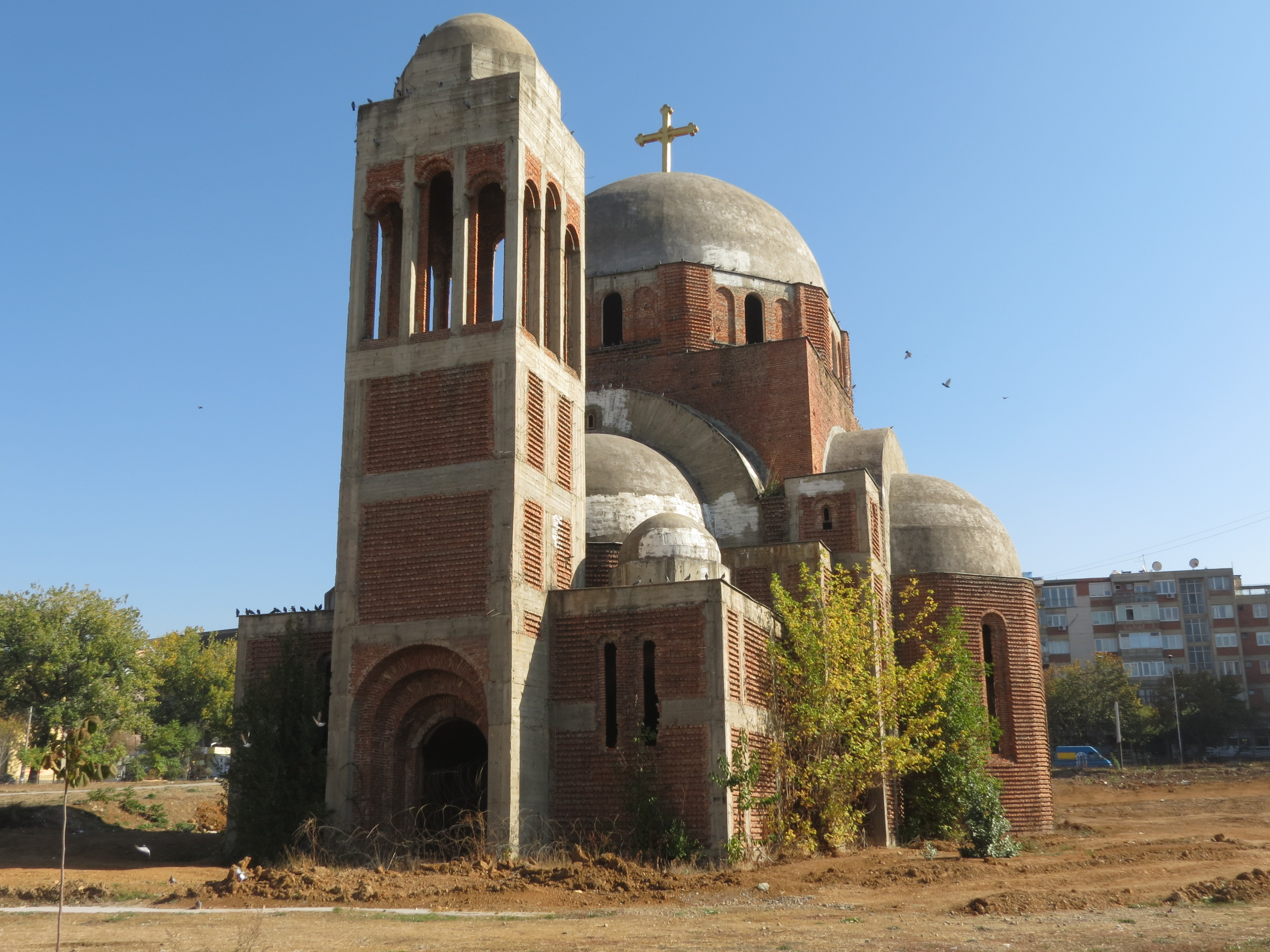 The unfinished Serbian Ortodox "Christ the Savior" Cathedral in Pristina, Kosovo.